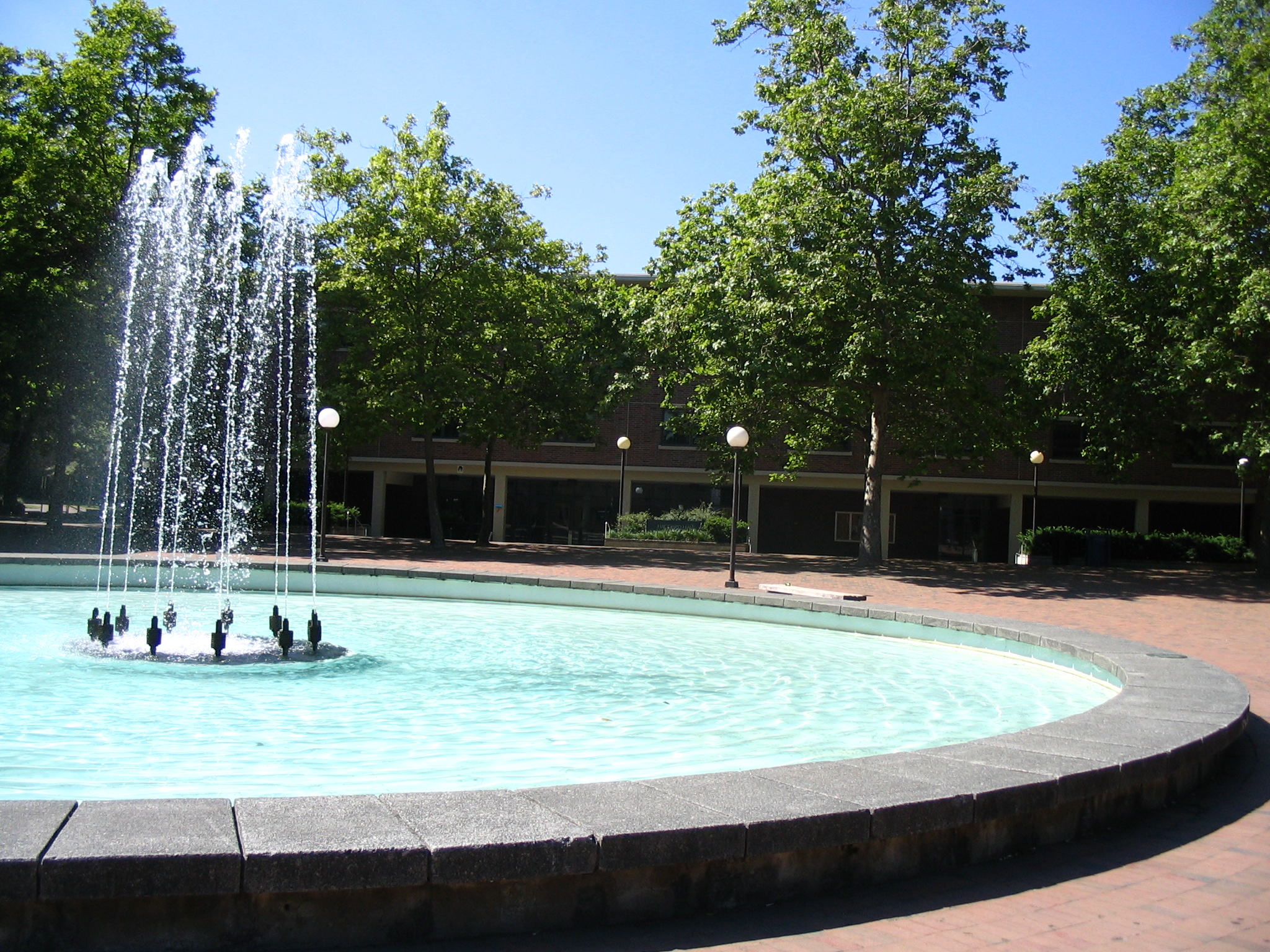 Fisher Fountain in Red Square, Western Washington University.